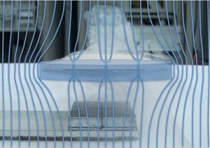 This is an illustration of Flux Pinning and the magnetic fields that are associated with it.